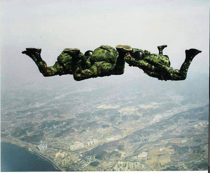 Yoon Jonghyuk (firefighter), High Altitude Low Opening, Republic of Korea Army Special Forces